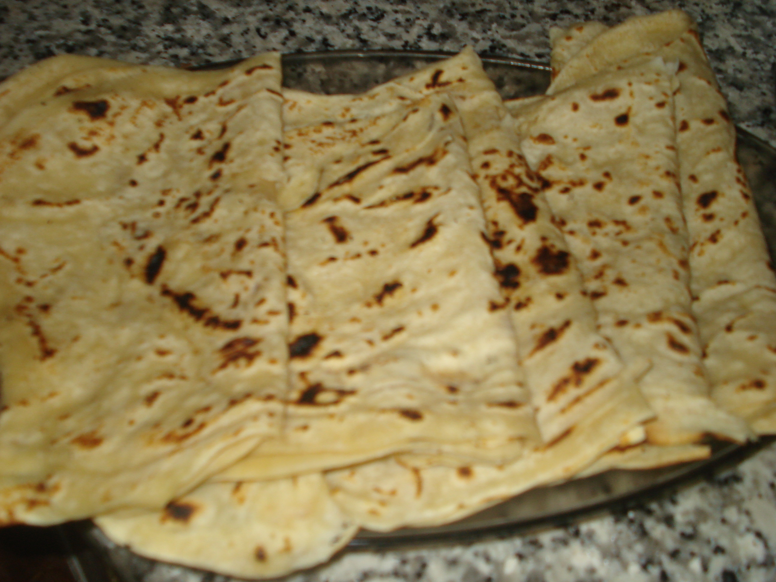 This is an image of food from Tunisia